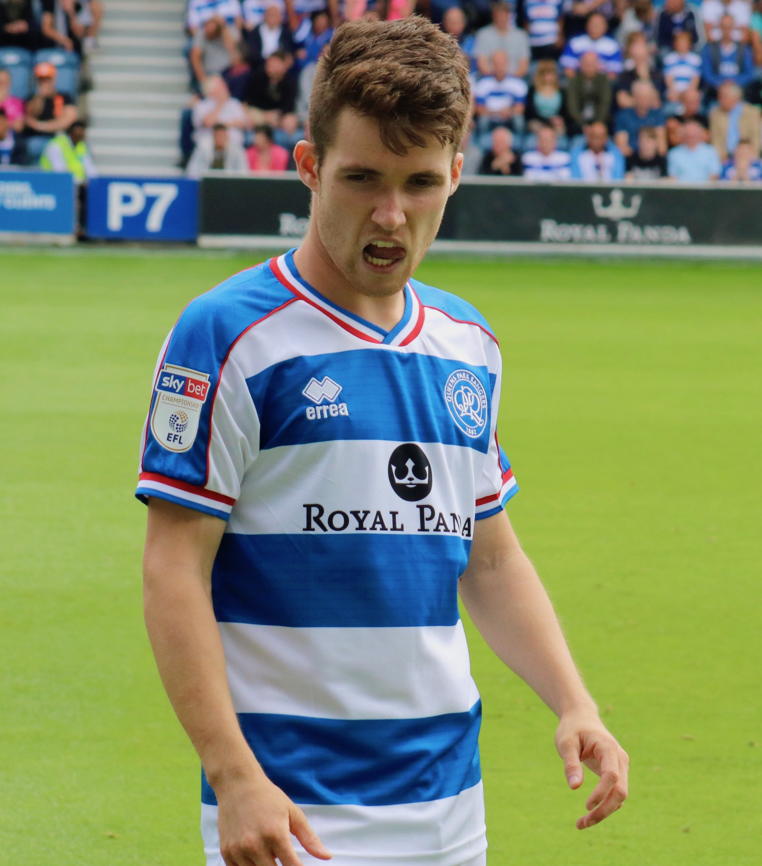 Smyth in acton